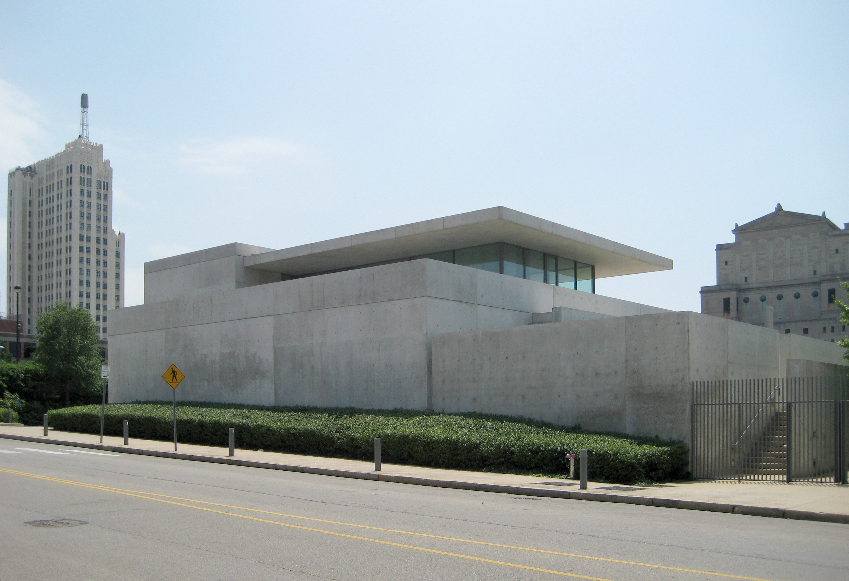 Pulitzer Foundation for the Arts, St. Louis, Missouri, United States